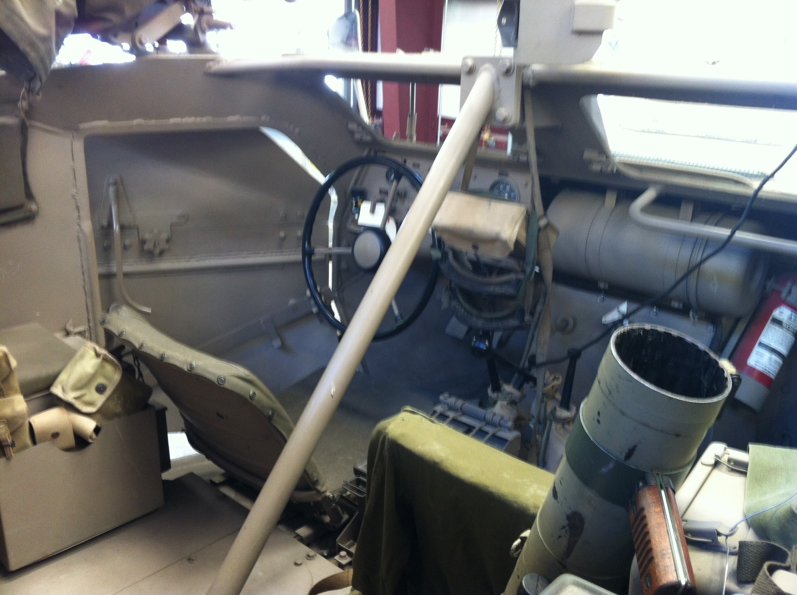 Military Vehicle Technology Foundation Museum, June 2012